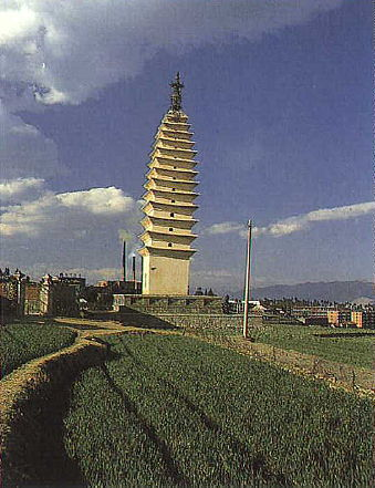 The Snakebone pagoda in Dali